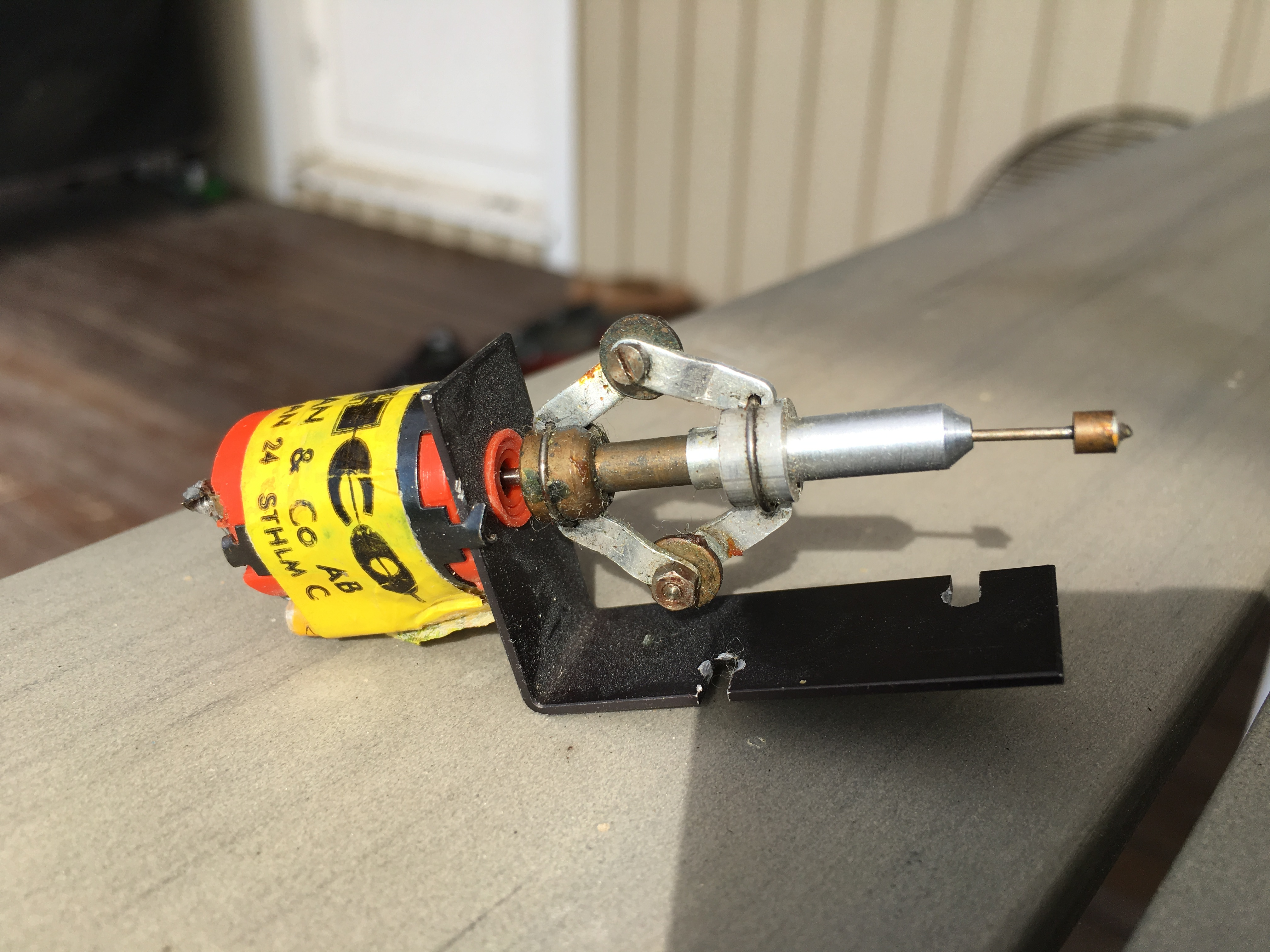 A German-made centrifugal fly-ball actuator for radio-controlled vehicles. Unknown brand and year of manufacture, probably in the 1950s.